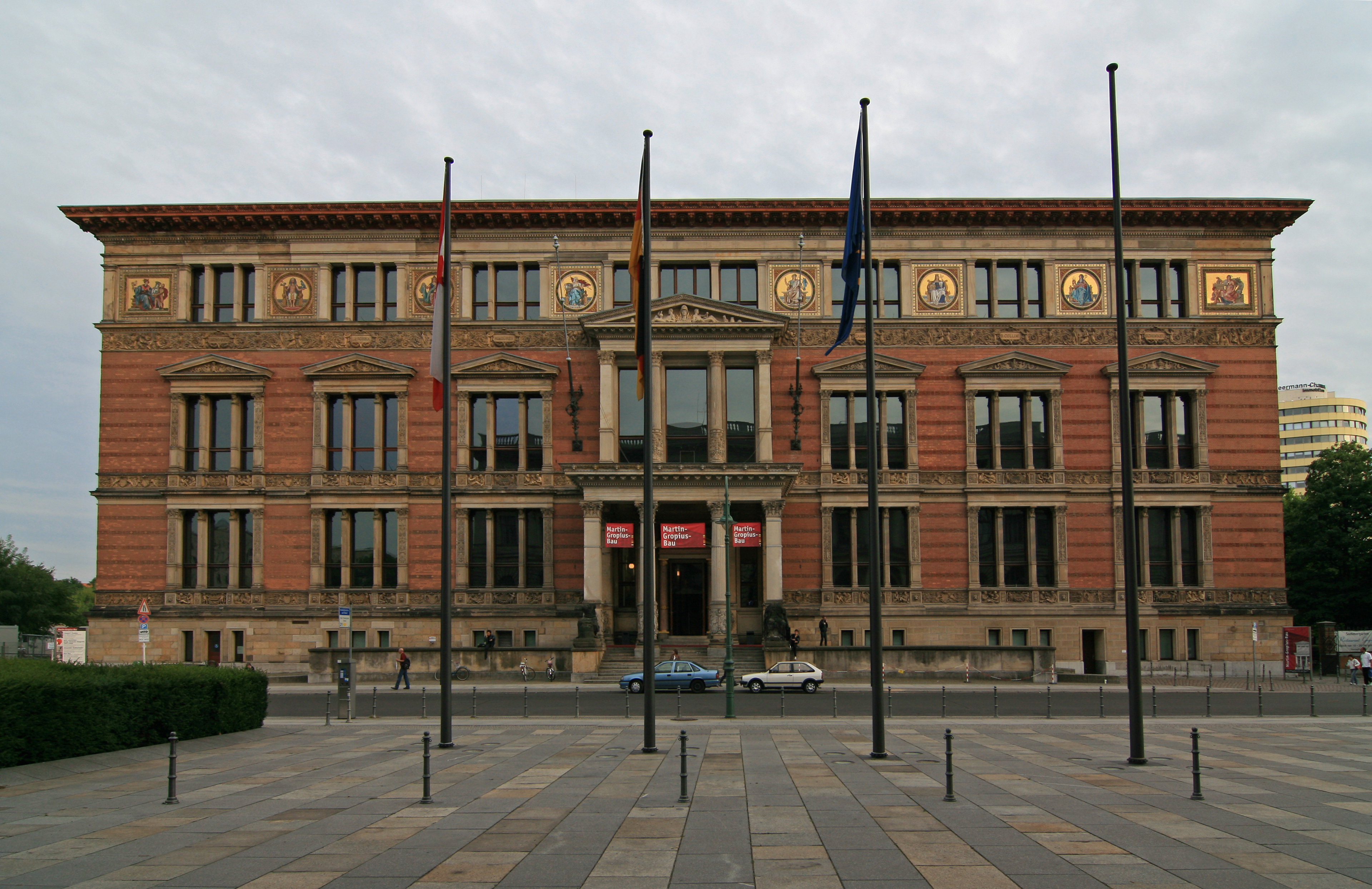 Martin-Gropius-Bau, Berlin.